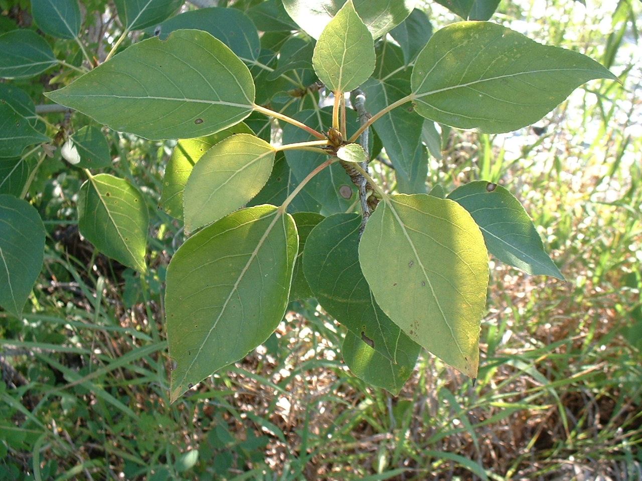 Populus balsamifera, black cottonwood. Columbus, Montana. August 21, 2003.